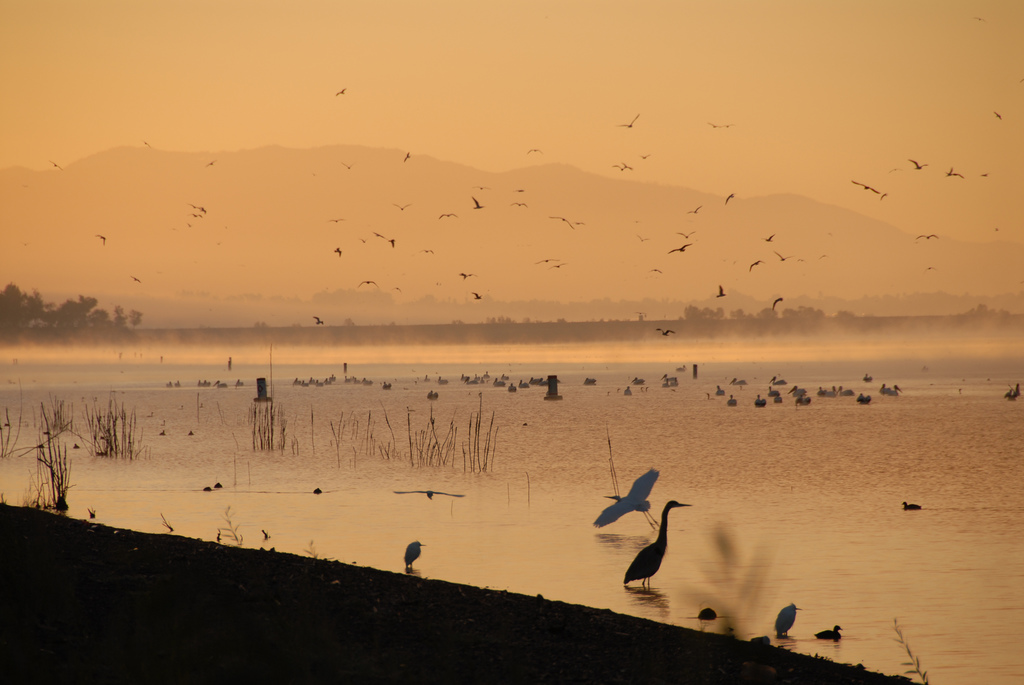 Herons on Lake Elsinore one December morning. Taken with a D200.